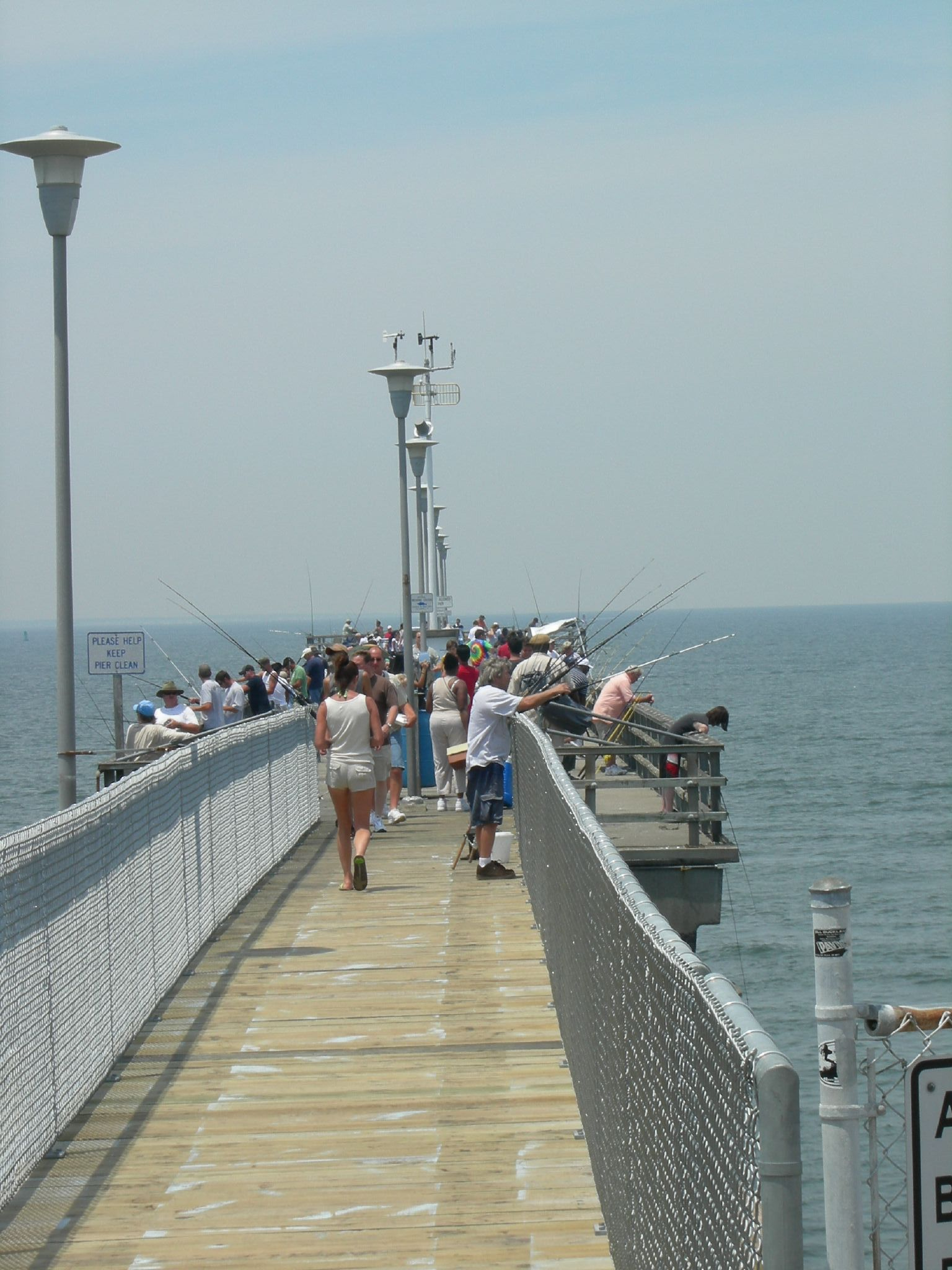 Chesapeake Bay Bridge-Tunnel Fishing Pier